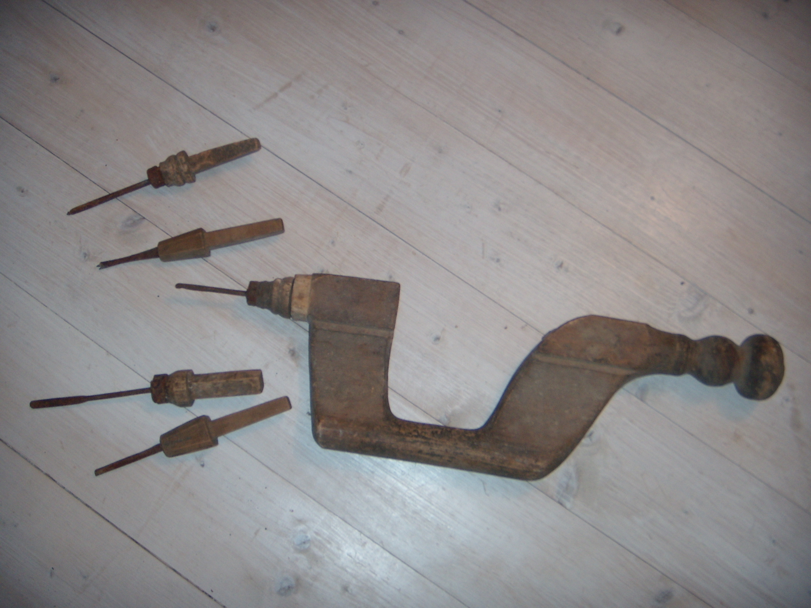 Brace (tool), a old one in wood from Sweden with some different drills.